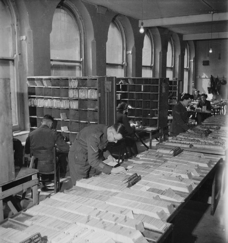 Army Post Office in the Midlands, England, 1944 Staff at the Army Post Office 'somewhere in the Midlands' work on the card index of two million casualties that is maintained there. This index enabled letters for prisoners to be sent to the Red Cross for delivery, and enabled letters for wounded service personnel to be sent to the correct hospital. It also meant that the next-of-kin of the dead could have their letters returned to them after they had received their official War Office notification. In the background, more staff can be seen sorting mail.